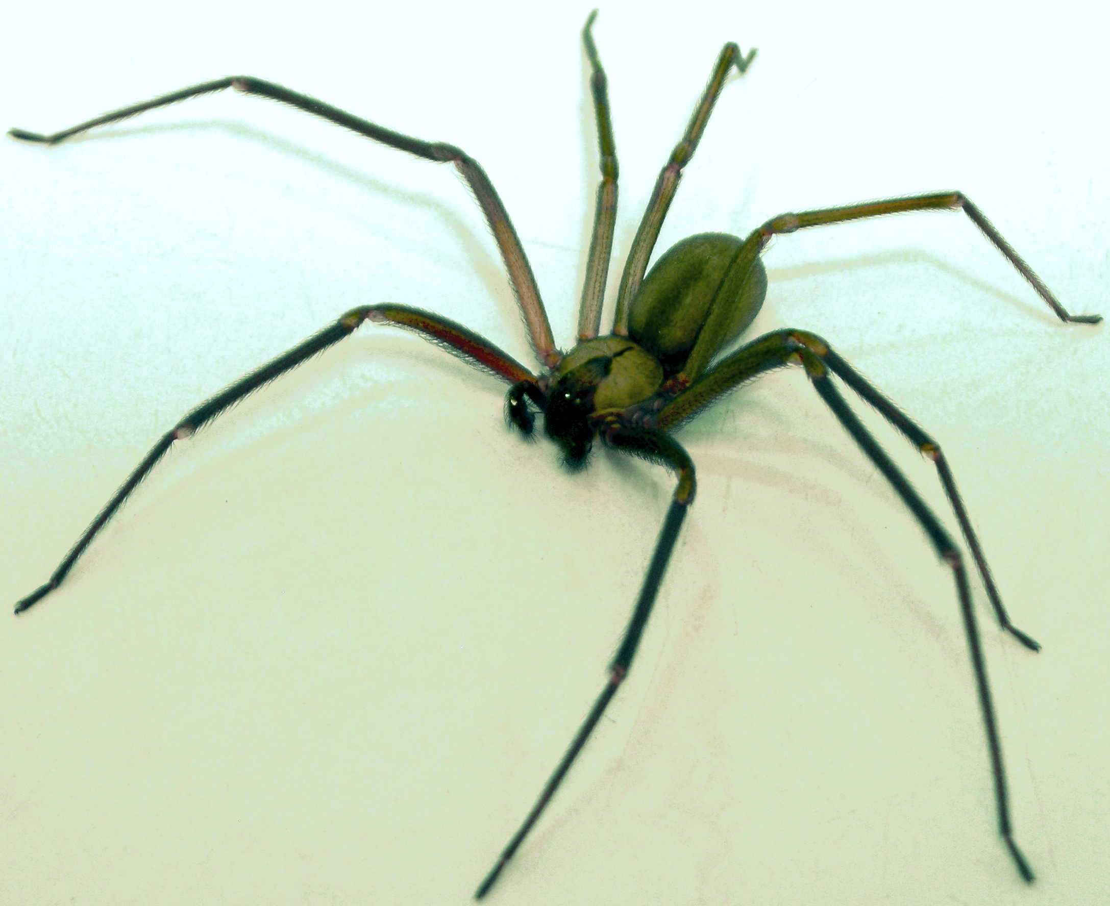 picture with no flash